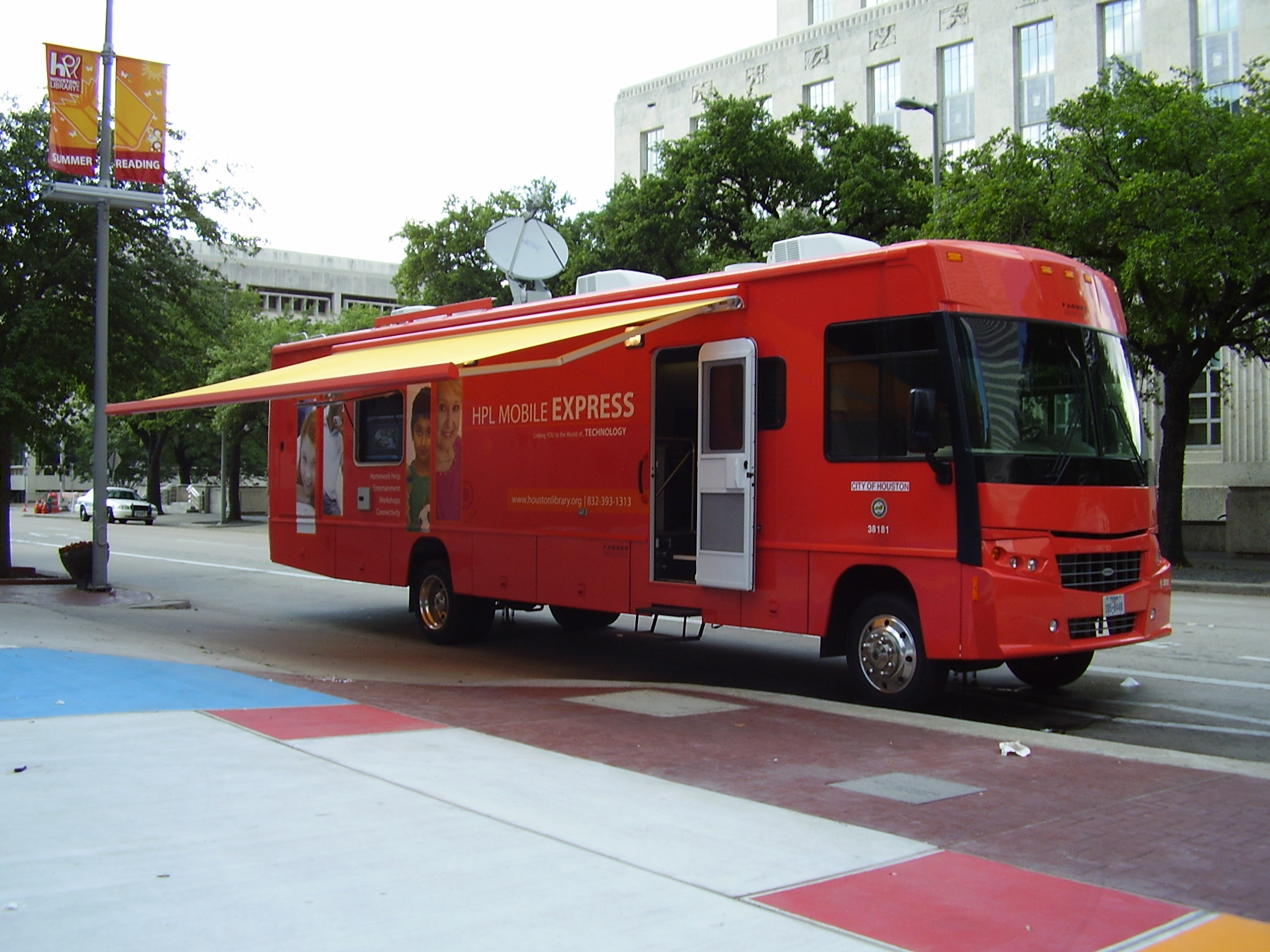 Houston Public Library bookmobile, next to the Jesse H. Jones Library